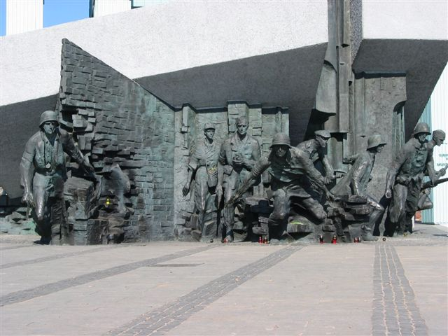 The Warsaw Uprising Monument in Warsaw